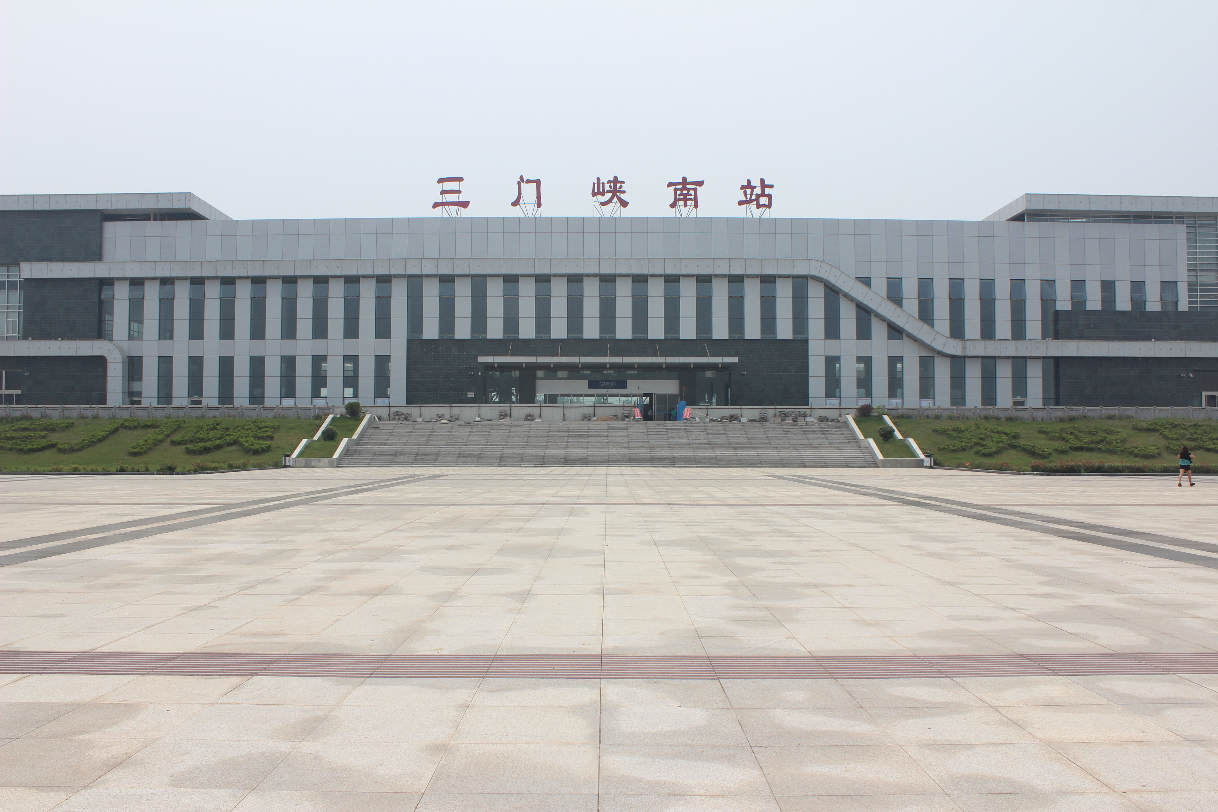 Plaza, Sanmenxia South Railway Station